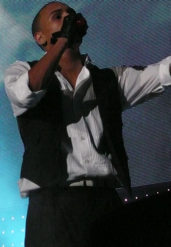 Rihanna and Chris Brown concert. Brisbane Entertainment Centre. November 1st 2008